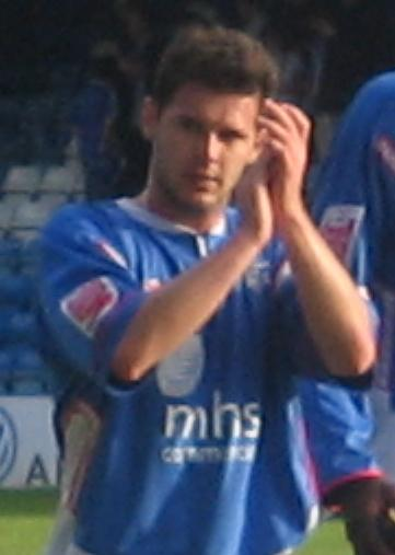 gillman1986